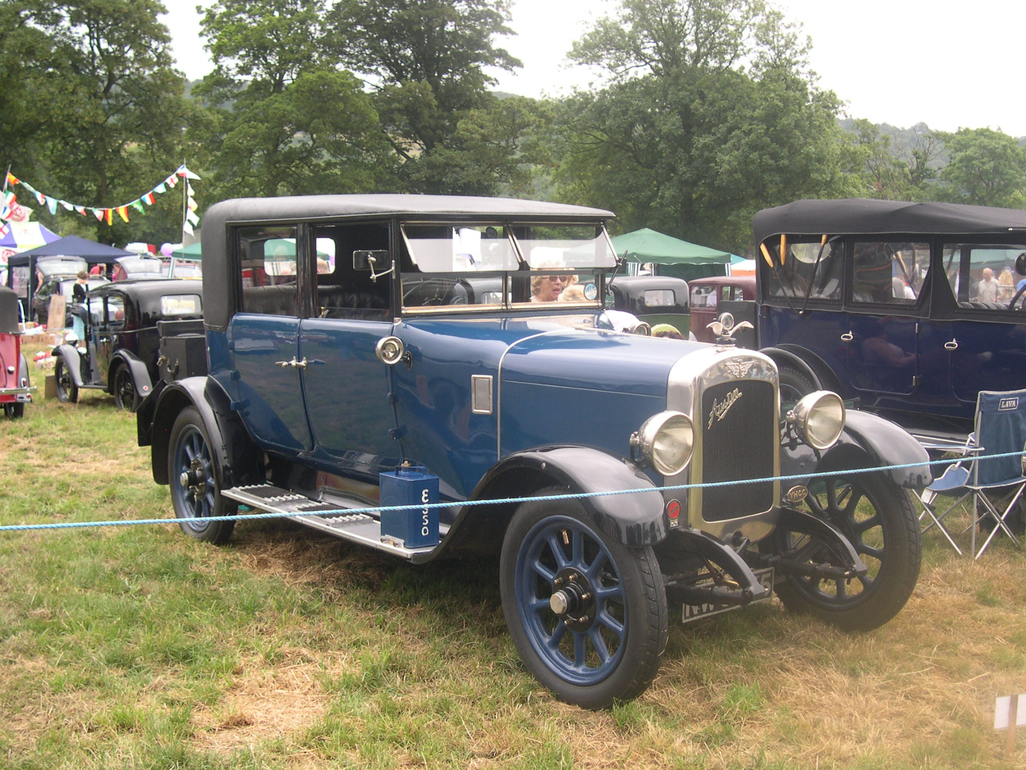 1925 Austin 20_6 saloon Ashover Derbyshire 2006